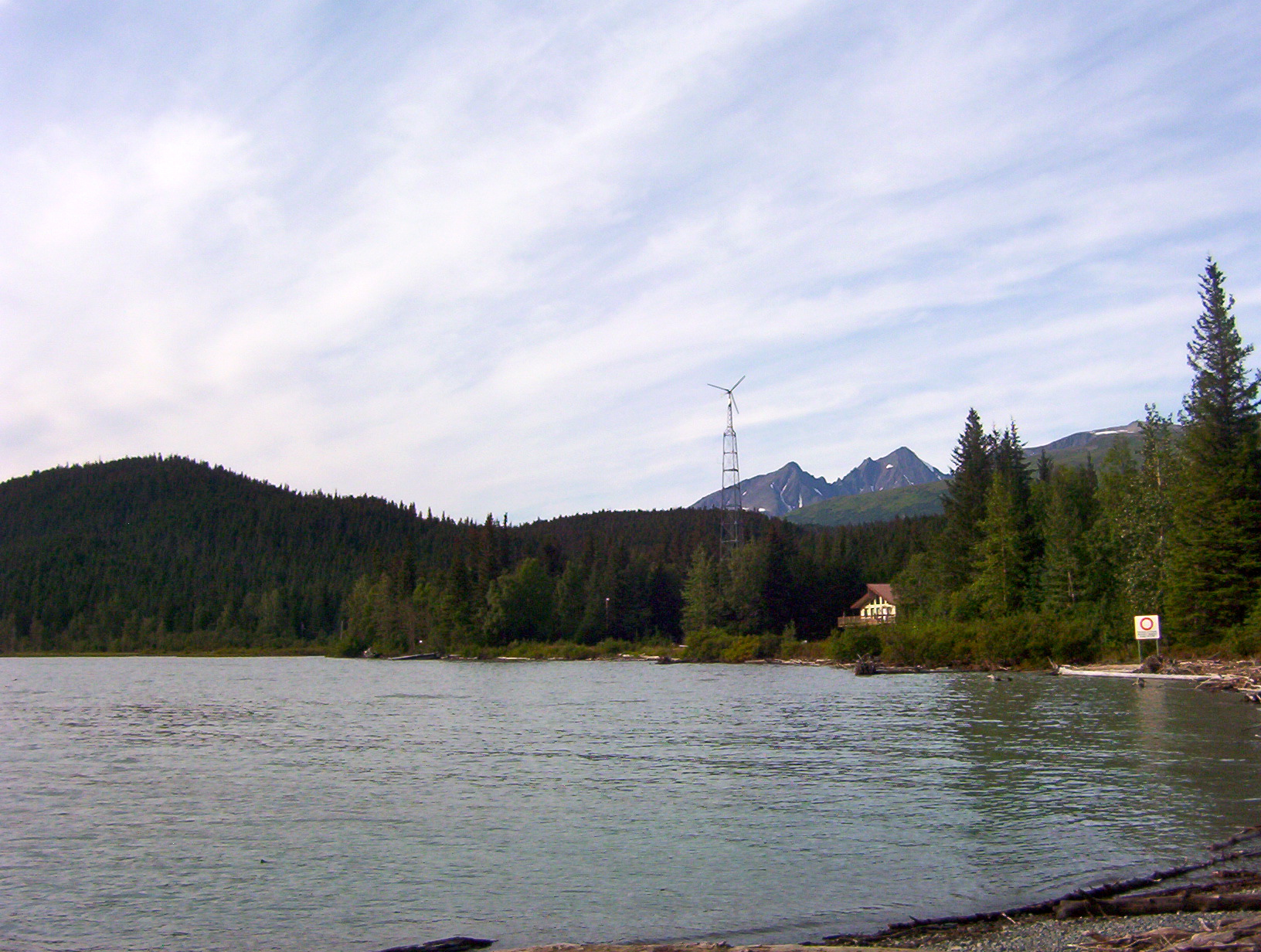 Primrose, Alaska: windmill is the only identifiable landmark in this CDP Licensing Category:Images of Alaska